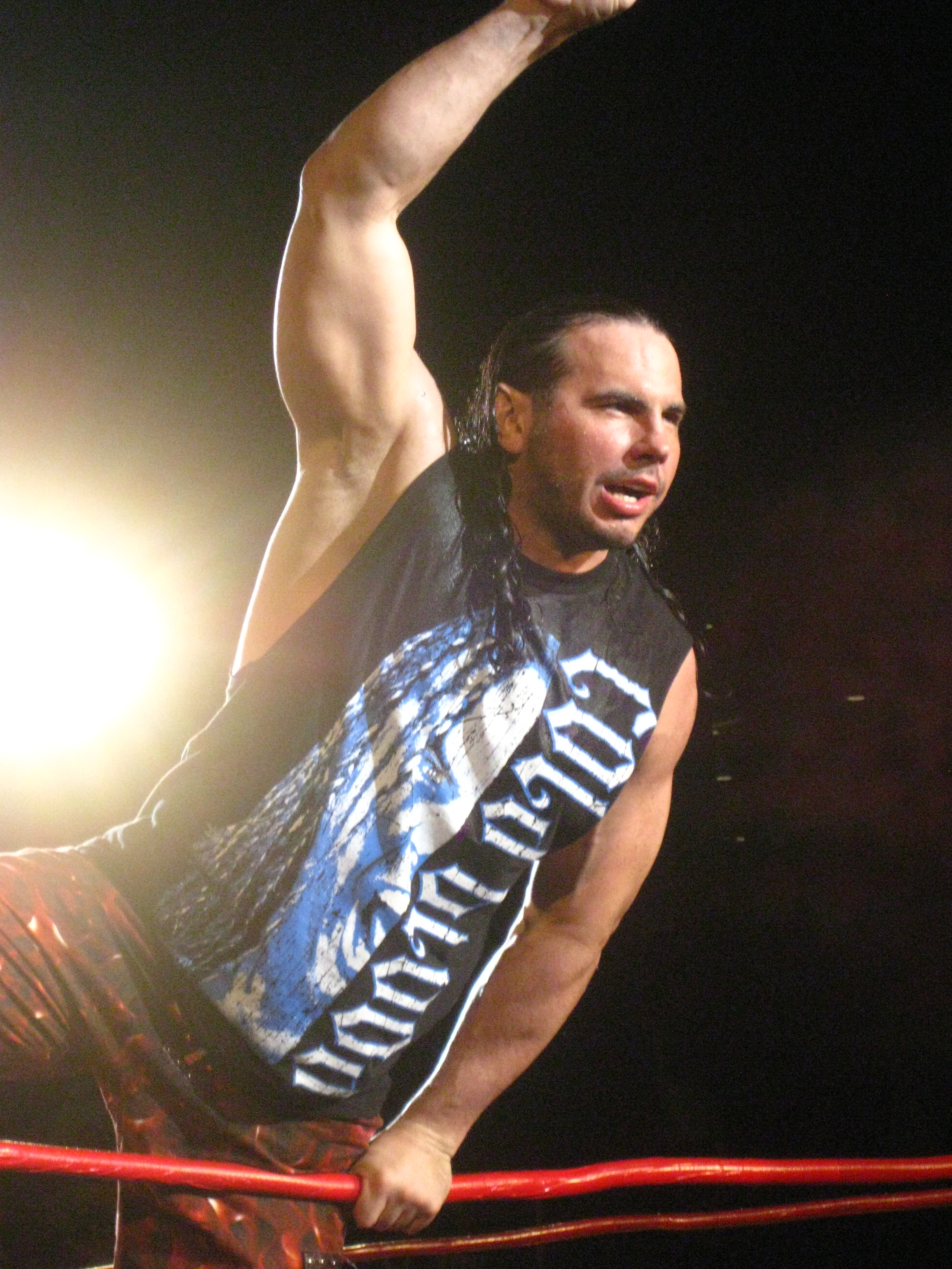 A TNA Live! Even at the ShoWare Center in Kent, WA. No PRO cameras were allowed so I had to put my Canon PowerShot SD1100 IS to work!